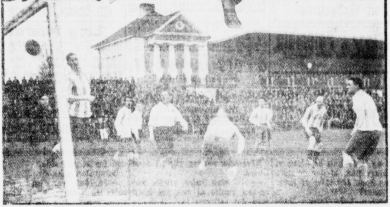 Match action during the final of the 1926 KBUs Pokalturnering — Picture shows Boldklubben af 1893's second goal in the match, scored by forward Anthon Olsen's free kick, with defender back Valdemar Laursen of Kjøbenhavns Boldklub trying to reach the ball with his head. Behind him, farthest to the left, is goalkeeper Poul Graae.